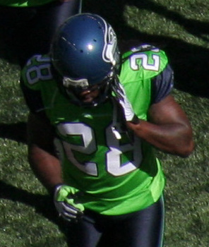 Seattle Seahawks players, 2009